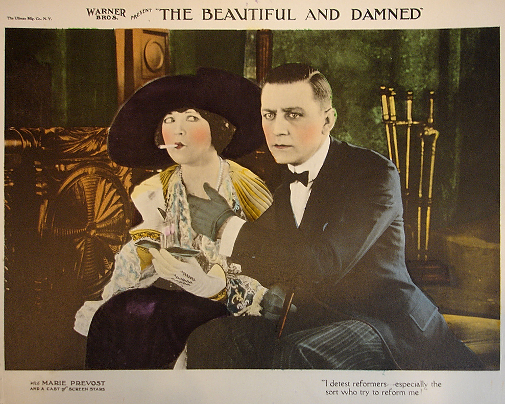 First of six lobby cards for the lost American drama film The Beautiful And Damned (1922).